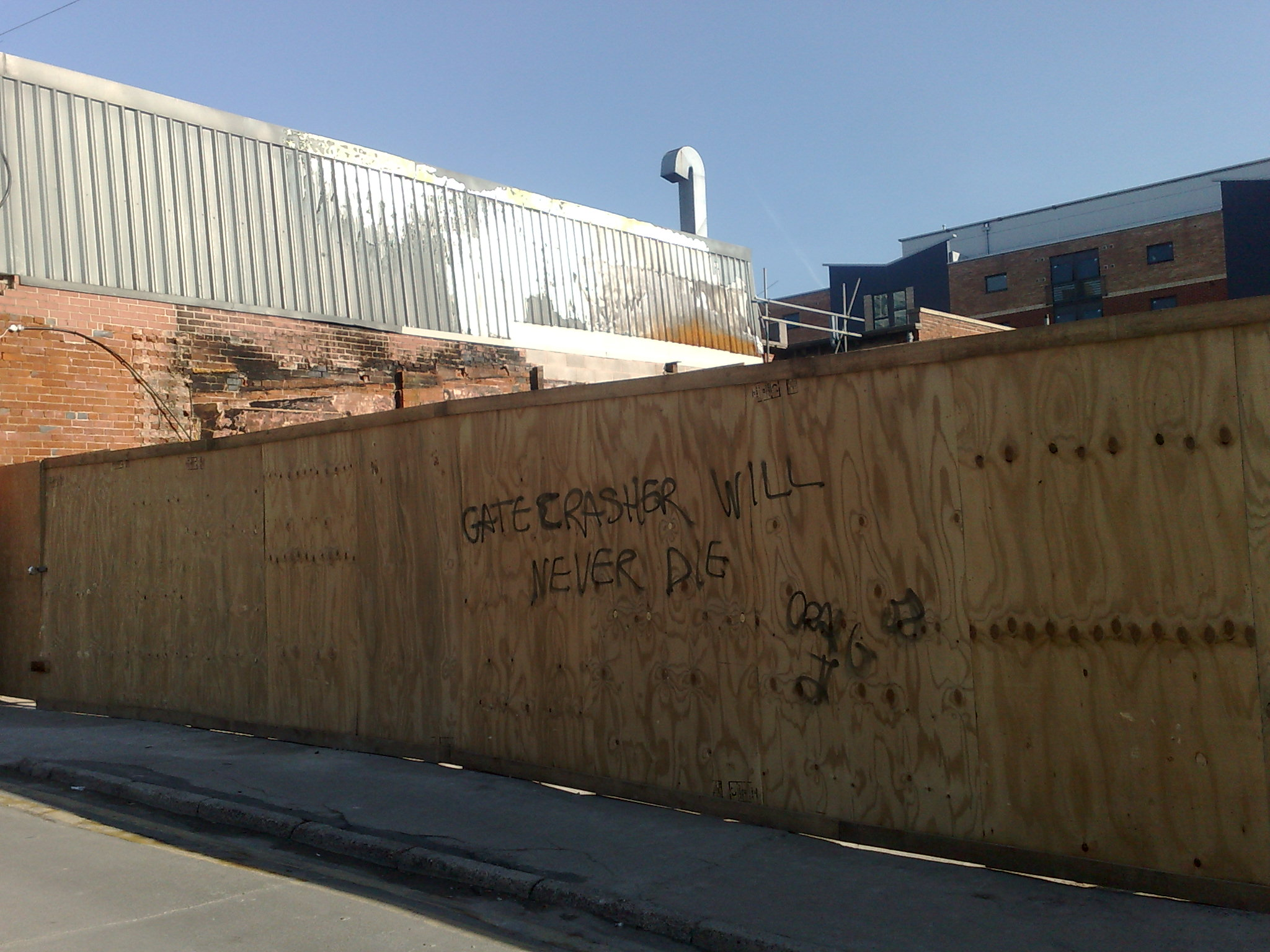 Site of Gatecrasher One Nightclub, Sheffield